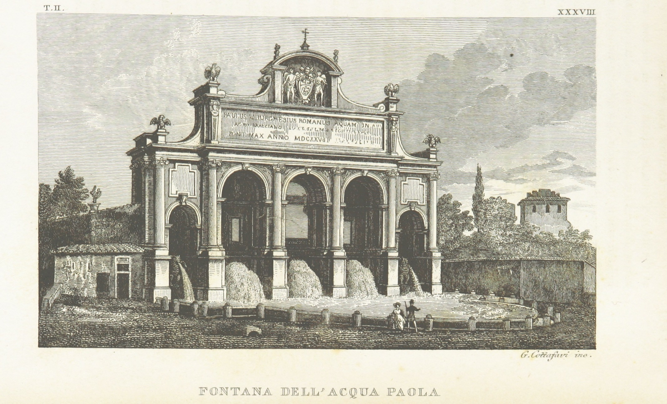 Title: "Rome, ancient and modern, and its environs" Author: DONOVAN, Jeremiah - D.D., of Maynooth College Shelfmark: "British Library HMNTS 10130.dd.15." Volume: 03 Page: 349 Place of Publishing: Rome Date of Publishing: 1842 Issuance: monographic Identifier: 000967162 Image rotated by Mac9